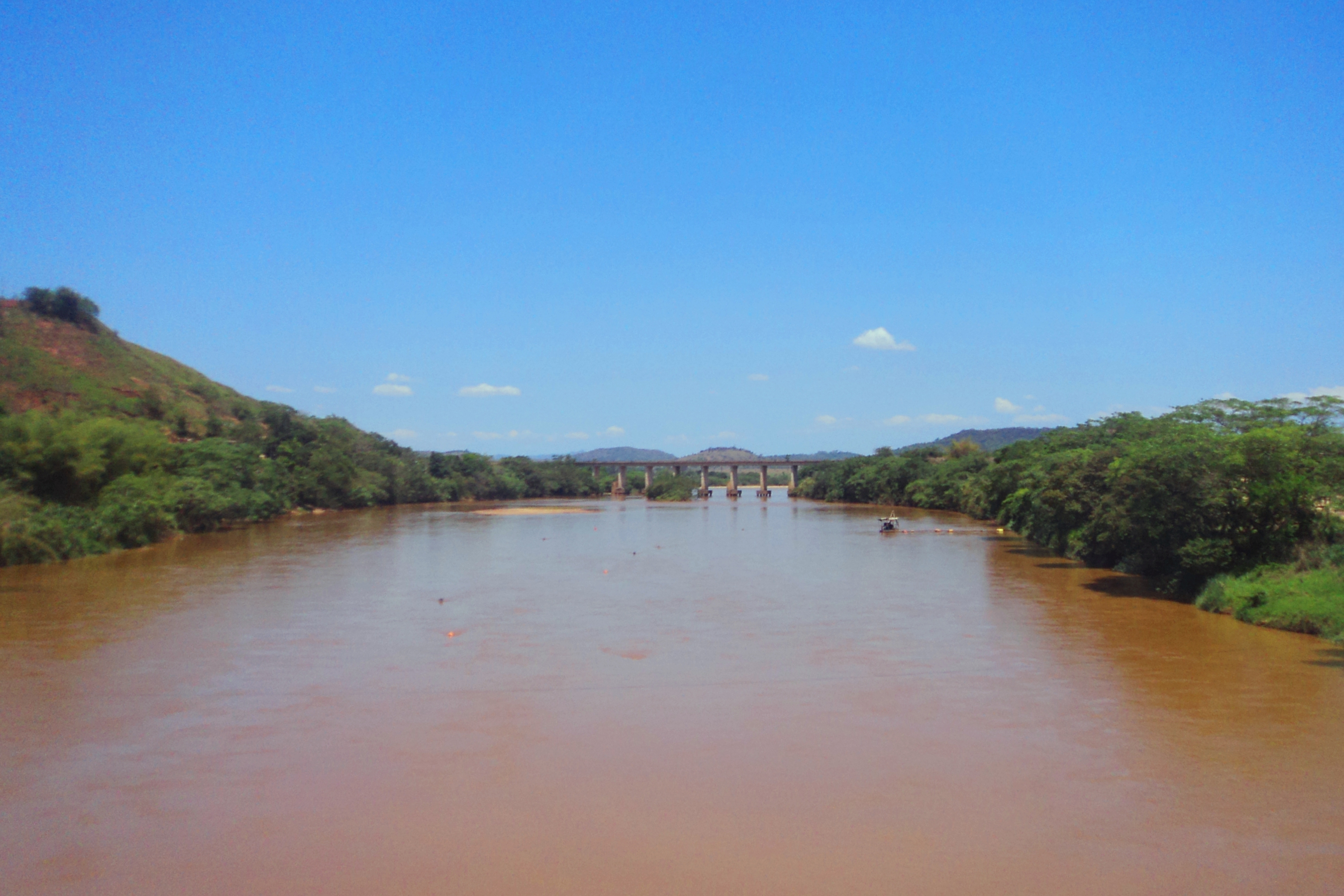 The Santo Antônio River between Naque and Belo Oriente, Minas Gerais, Brazil.